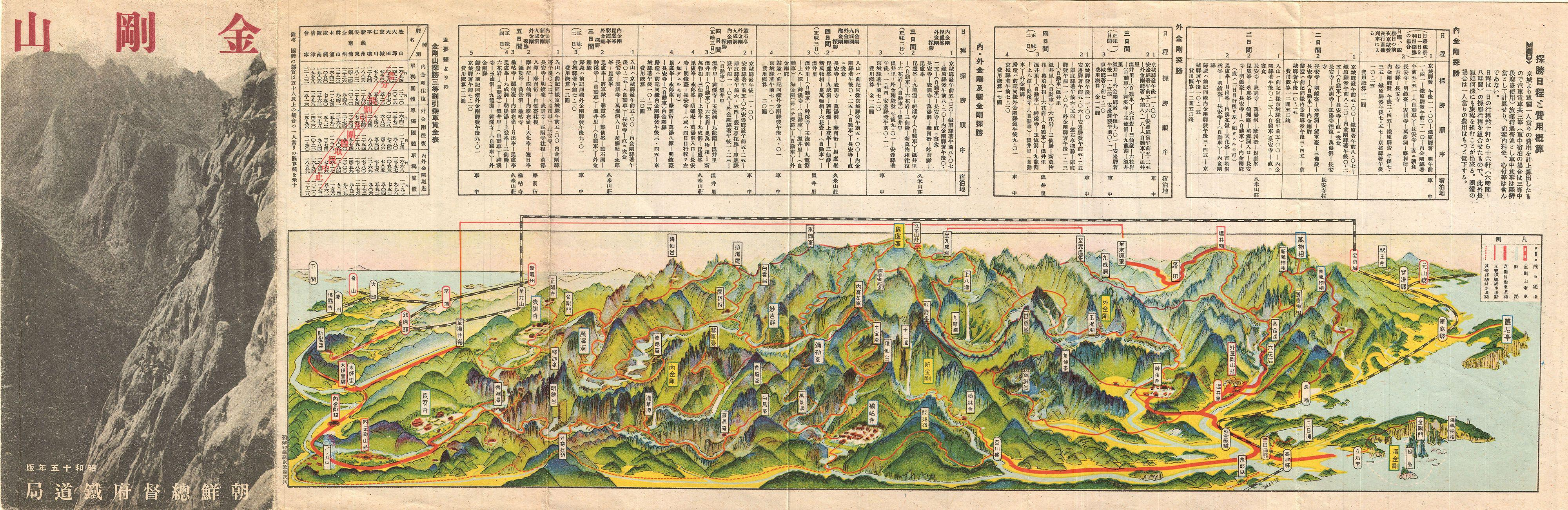 An extremely attractive 1939 or Showa 14 panoramic view map of Kumgangsan or Diamond Mountain, North Korea. Also known as Mount Kumgang, Diamond Mountain is an important tourist destination in North Korea. Diamond Mountain is one of the few areas in North Korea that is open to foreign tourism and regularly visited by international travelers. The mountain is known for is dramatic views and stunning natural beauty. This uncommon type of map evolved out of traditional Japanese view-style cartography and began to appear in Japan, Taiwan, and Korea in the early 20th century. Generally speaking such maps coincided with the development of railroad lines throughout the once vast Dai Nippon Teikoku or Japanese Empire. It is a distinctive style full of artistic flourish that at the same time performs a practical function. This particular example is both relatively early and exceptionally beautiful. It was printed via a multi-color lithographic process with delicately shaded tones and a easily comprehensible intuitive design. Shows villages, famous sights, roadways, and rail lines. Folds into itself, accordion style, with an photographic cover depicting Diamond Mountain at the left end. Verso features additional Japanese text and a smaller transportation map.